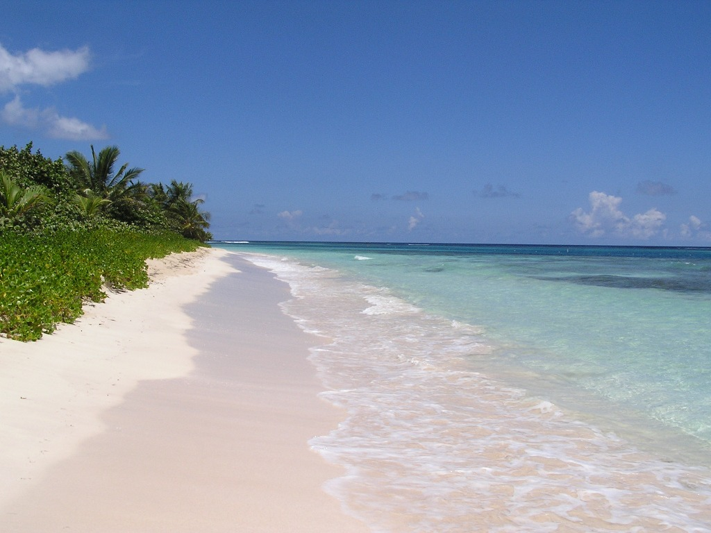 Considered one of the top 10 beaches in world.